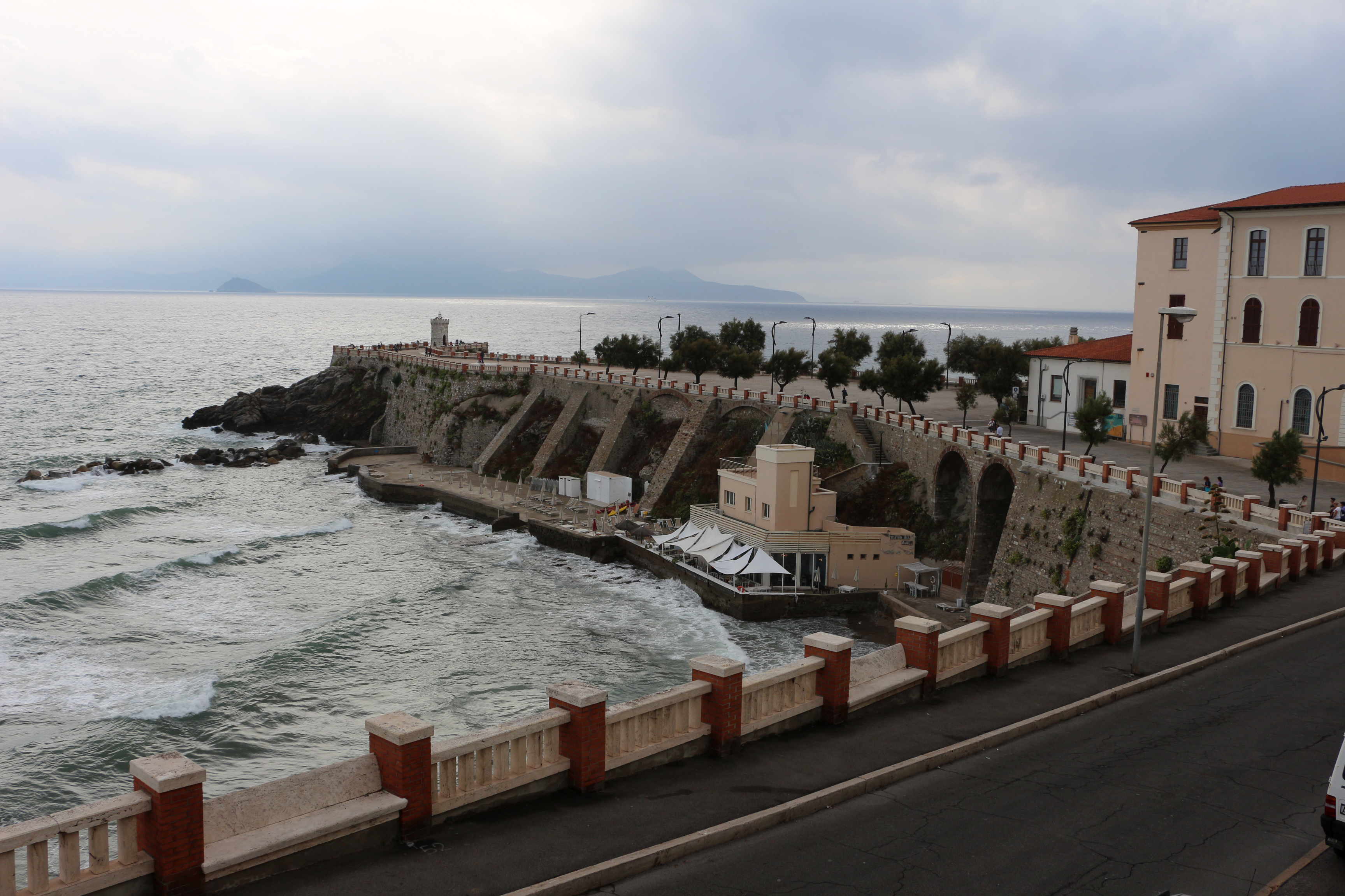 Piombino